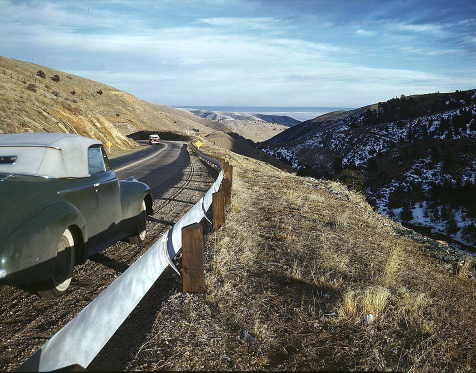 View along US 40 in Mount Vernon Canyon, Colorado Photo shows the highway US 40 and the Mount Vernon Canyon with Shingle Creek below, looking east towards Green Mountain and Denver beyond, with a 1941 Buick convertible in the foreground.